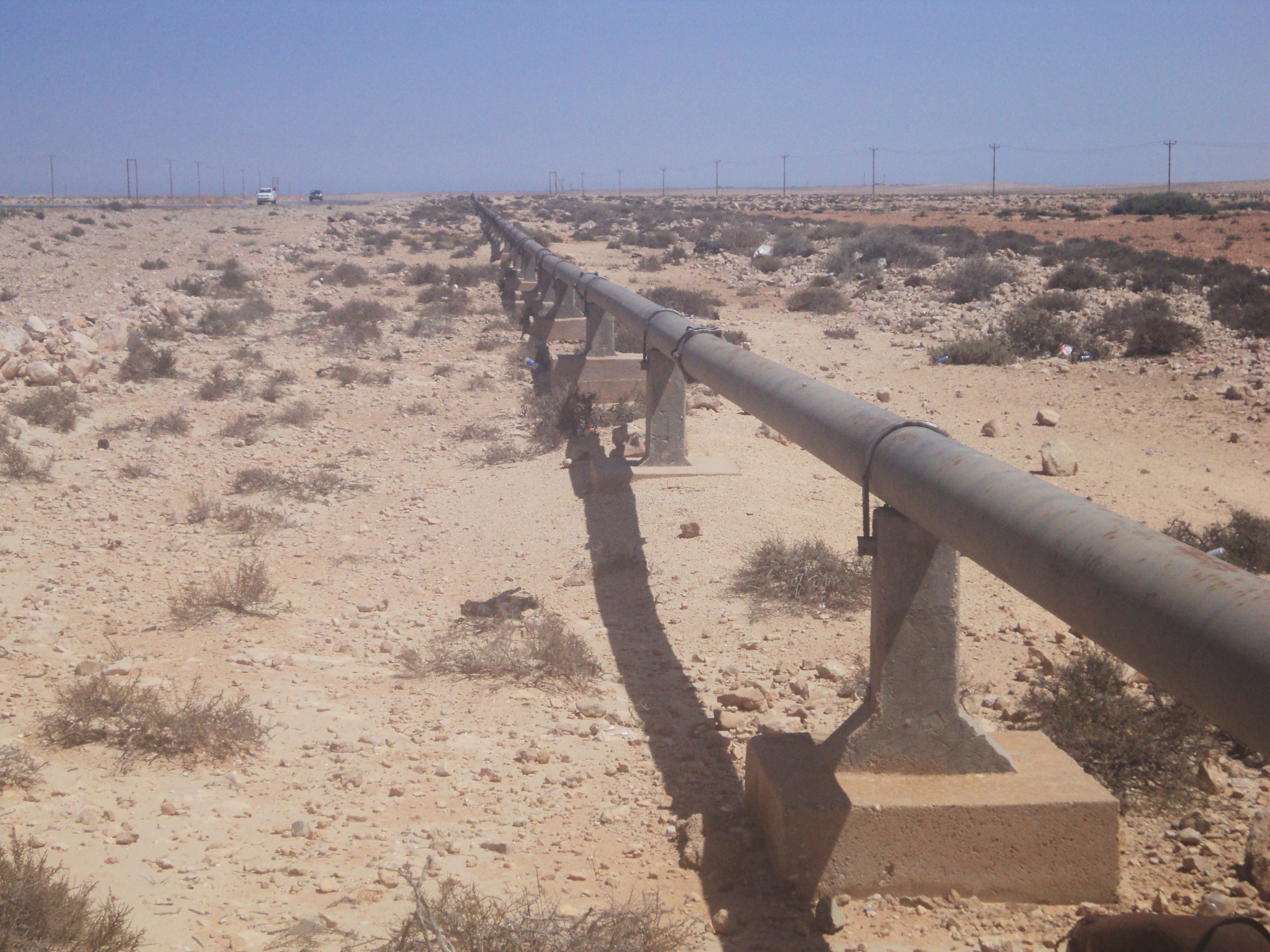 Old water pipe-line project, for fresh water, Derna-Tobruk road.